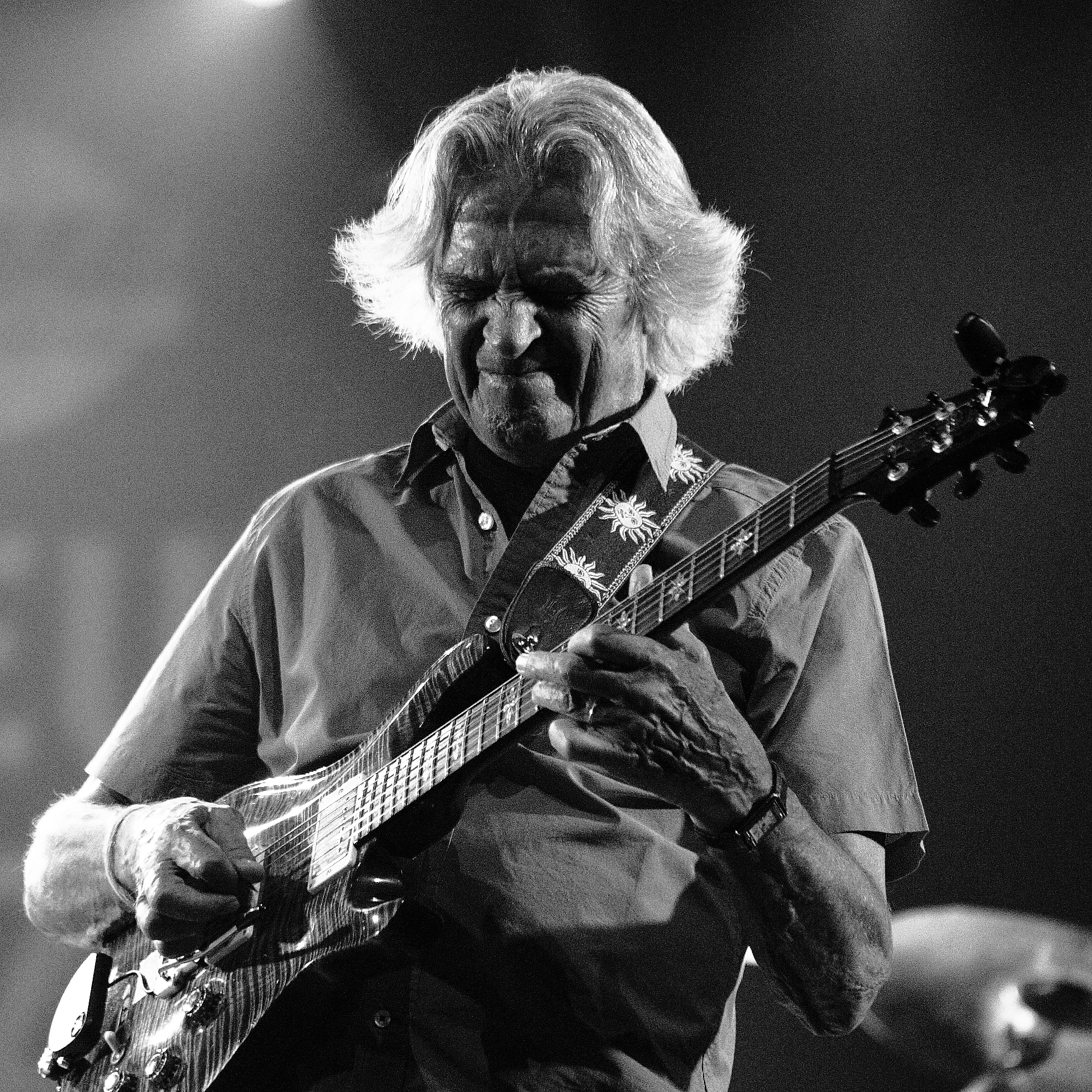 British guitarist "Mahavishnu" John McLaughlin performing at Saveurs Jazz Festival, Segré, France. 2016.